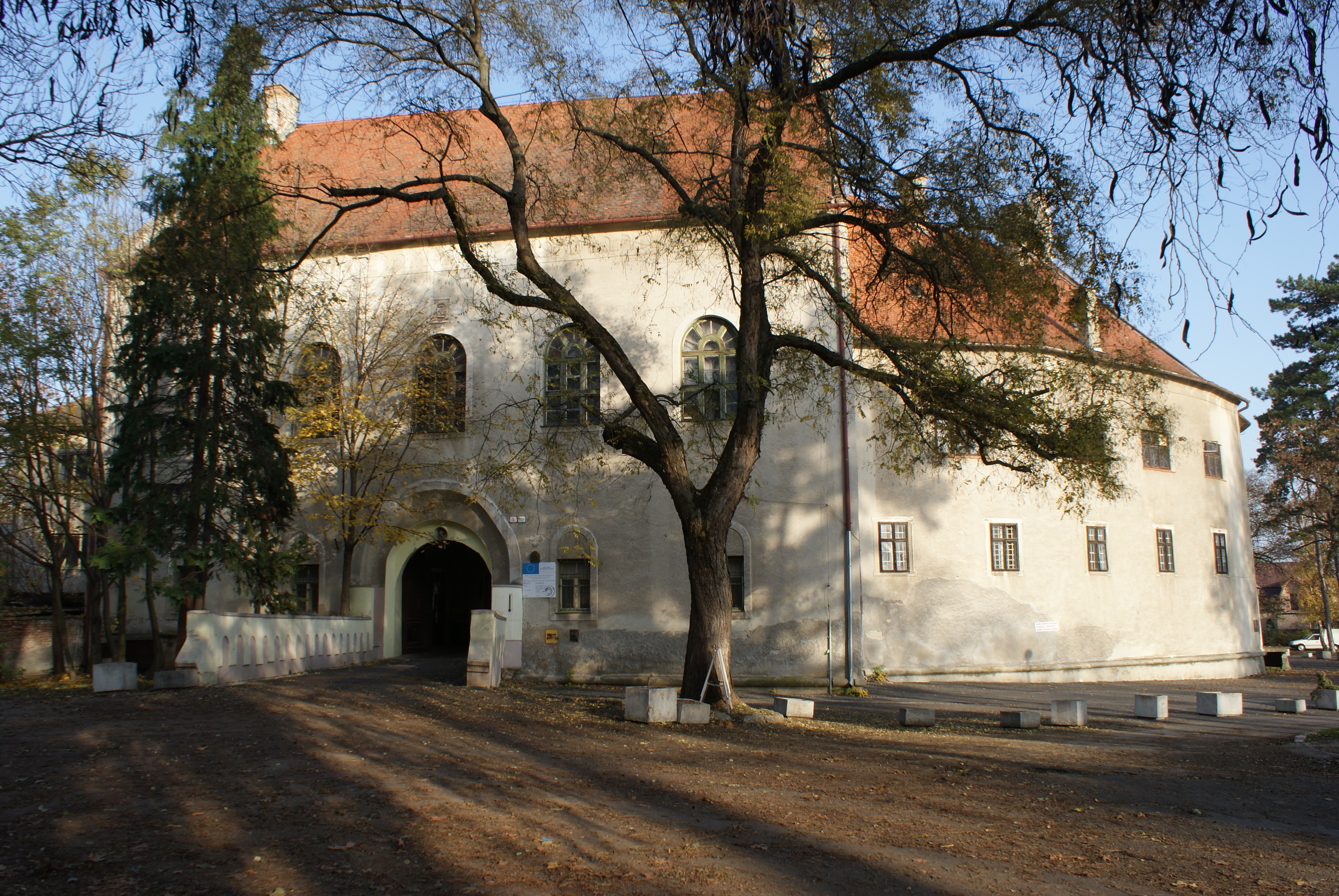 Pezinok, Slovakia, main entrance to the castle